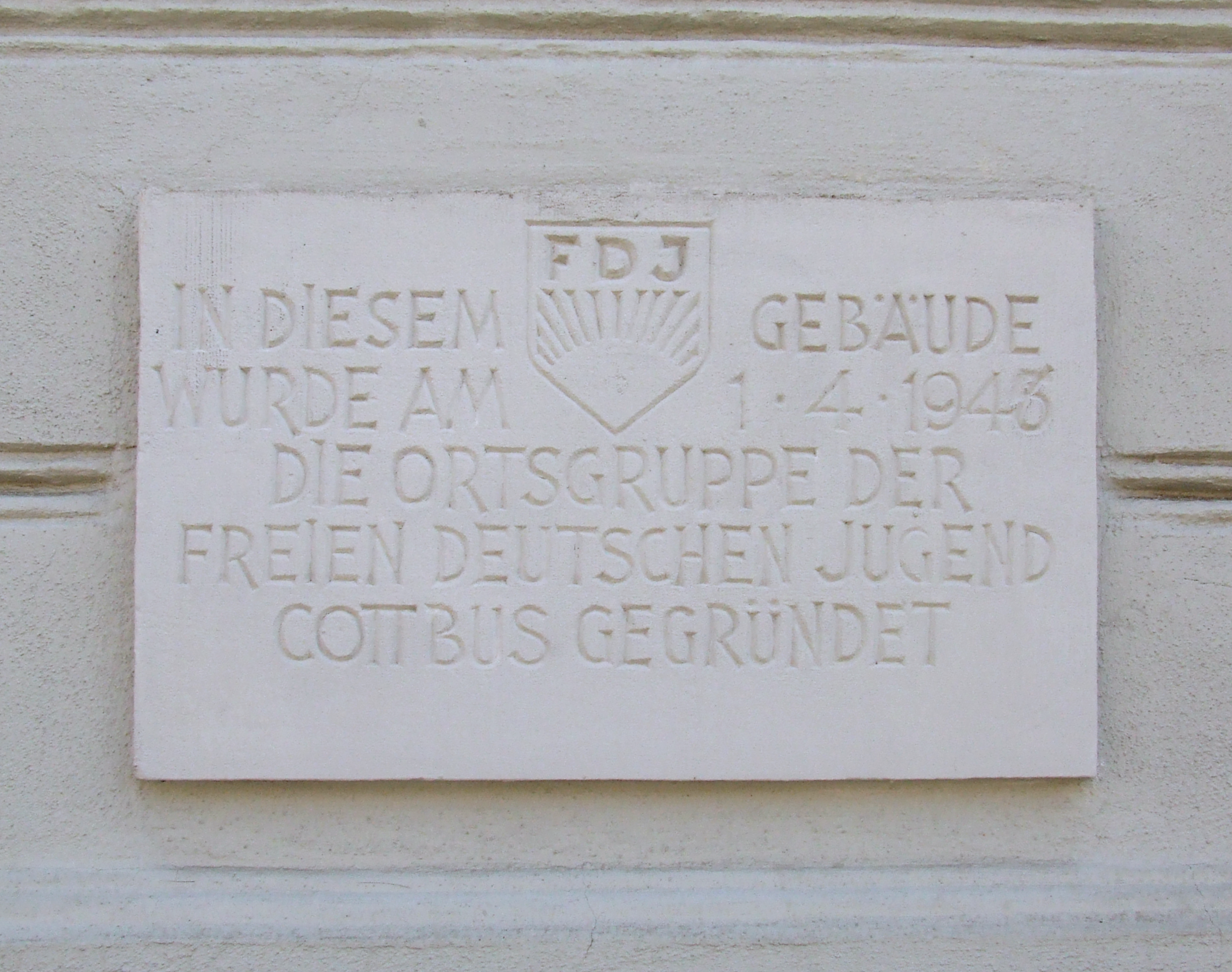 Gedenktafel der FDJ attached to Straße der Jugend 16 in Cottbus-Mitte. Both are cultural heritage monuments.